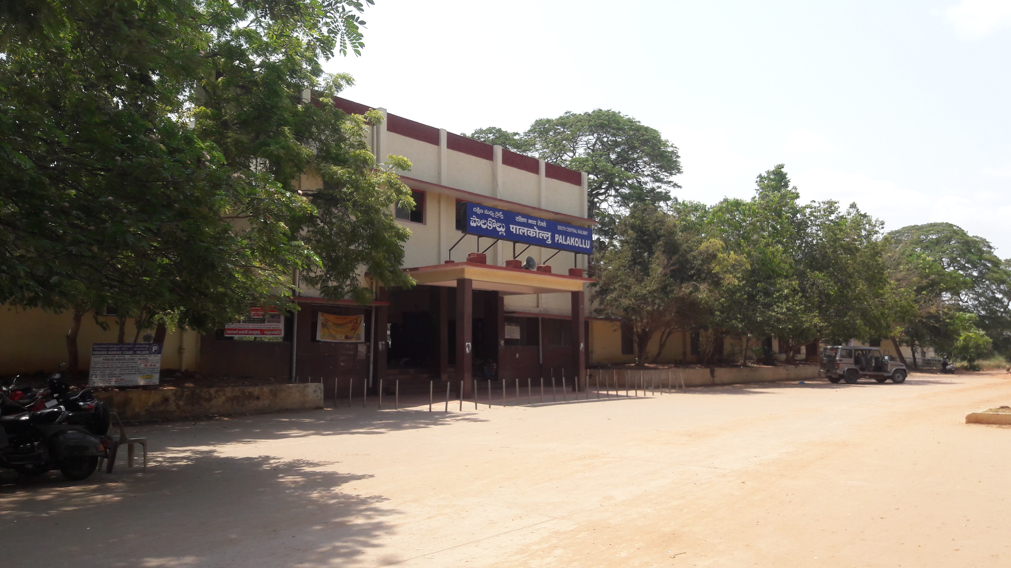 Palakollu City